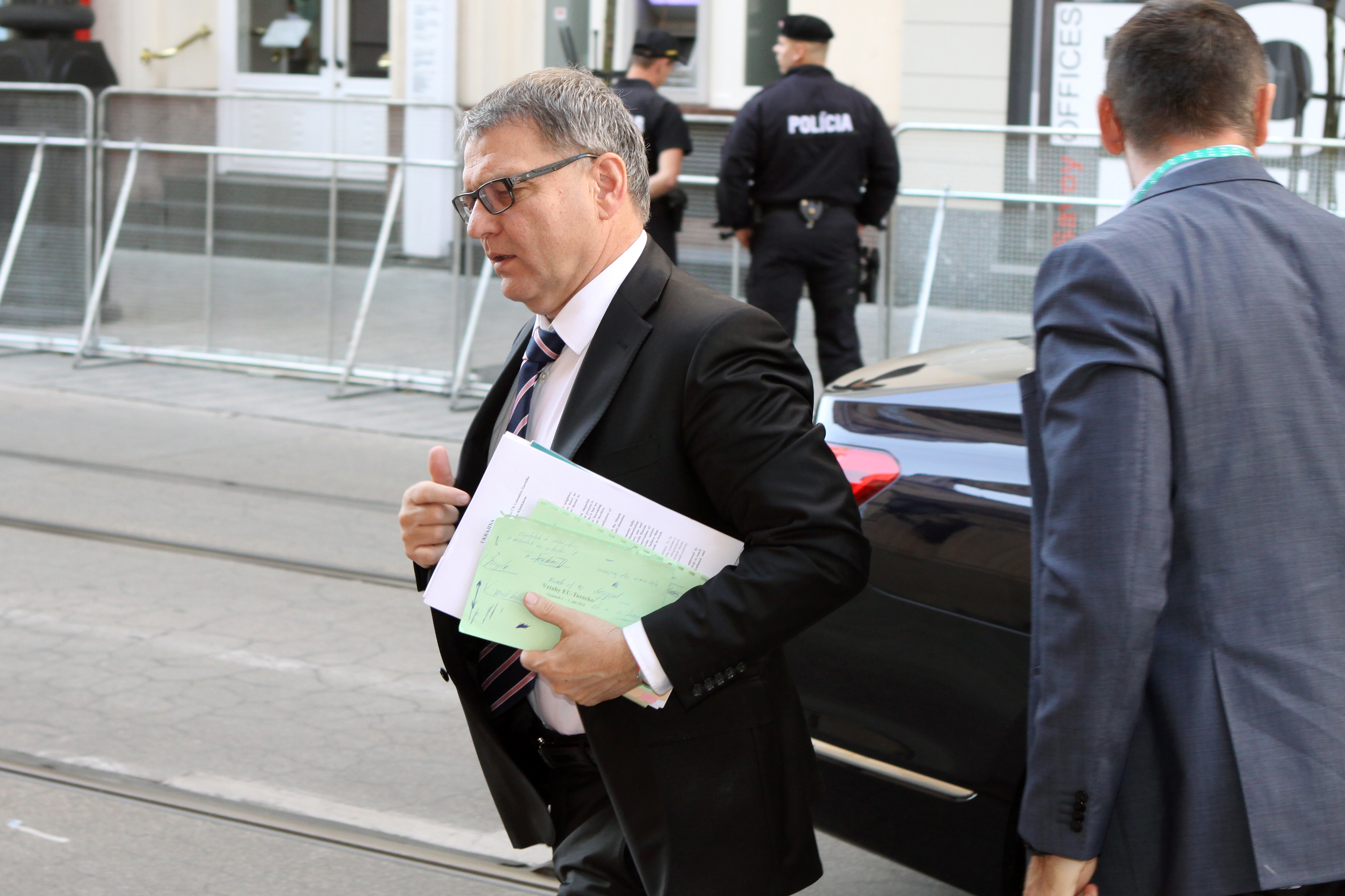 Czech Republic, Mr. Lubomir Zaoralek, Minister of foreign Affairs Informal Meeting of foreign Affairs Ministers (Gymnich) Photo: Andrej Klizan